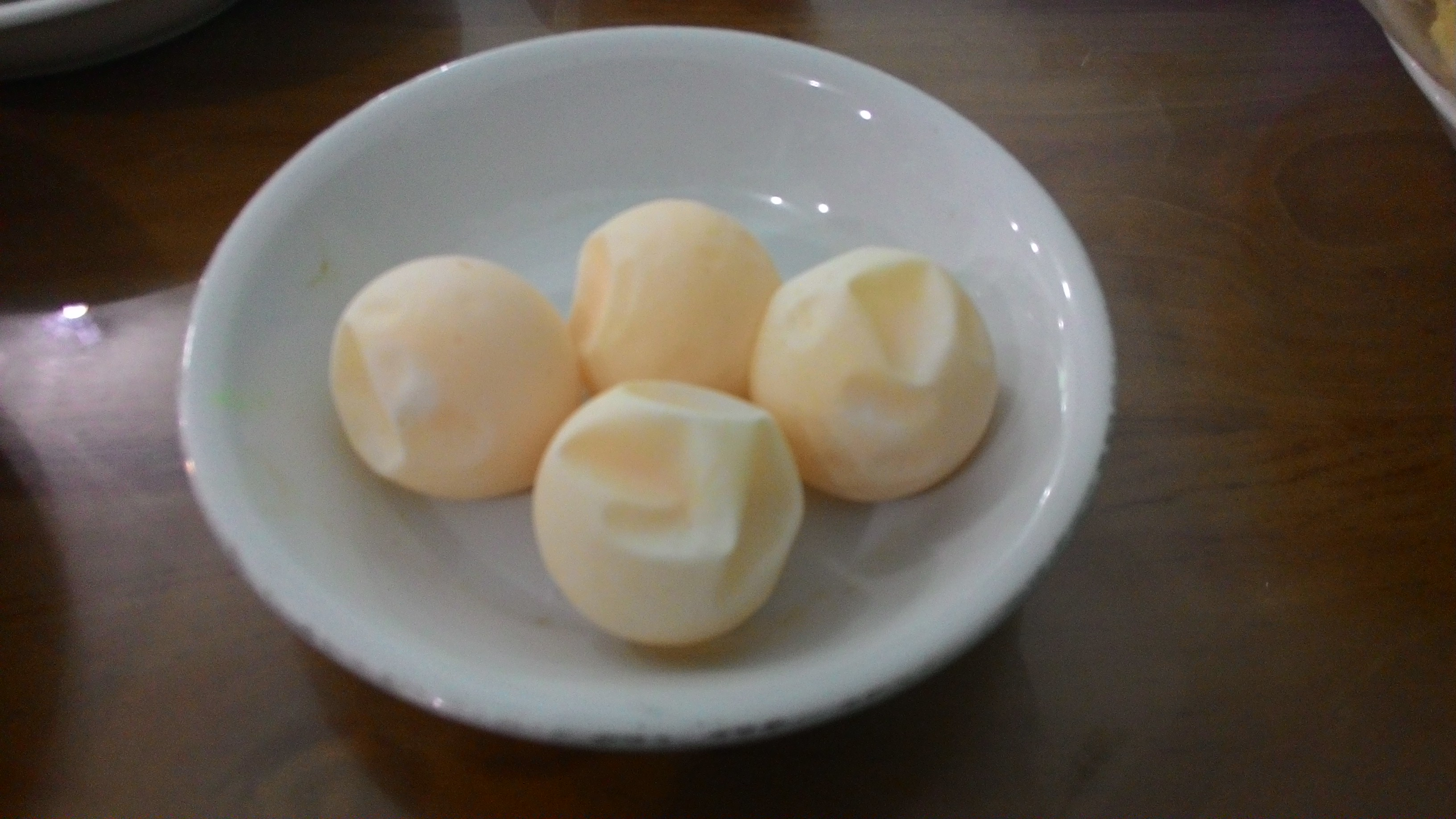 Boiled turtle eggs in a restaurant in Banda Aceh